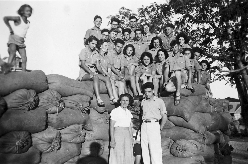 Gan-Shmuel - a group of youths 1946, Immigration to Israel